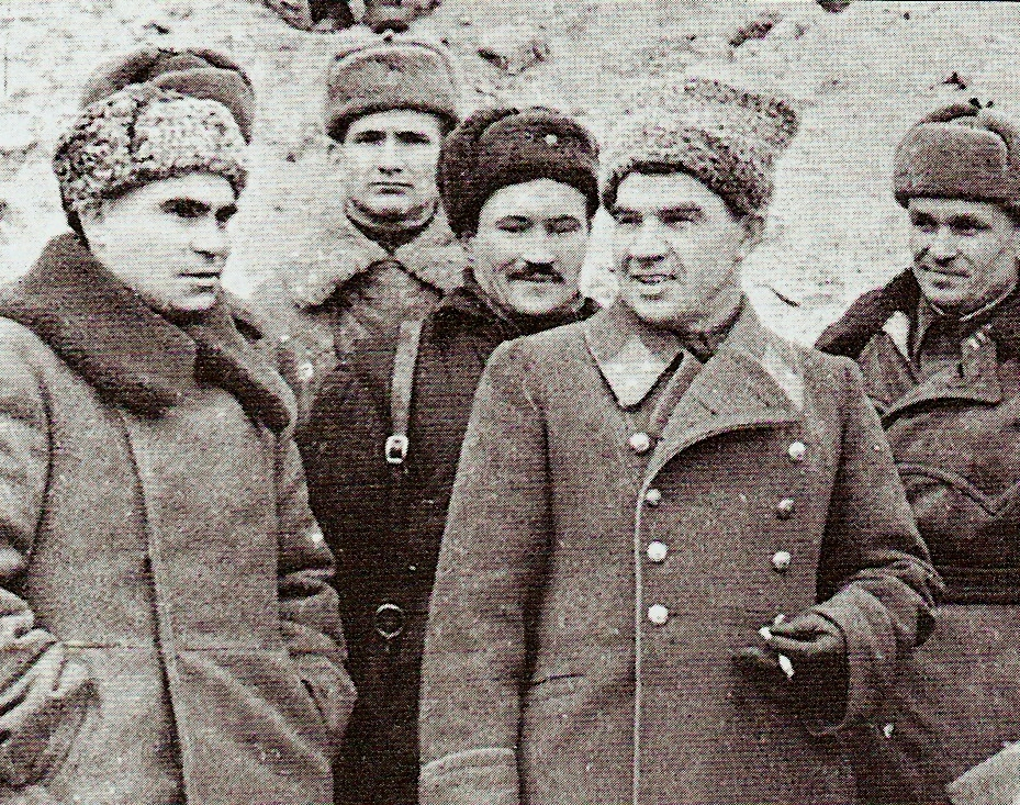 Vasily Chuikov in the Stalingrad front (1942-1943)